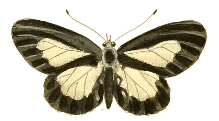 Extract from Plate XXXVII. ACRÆA ETHOSEA (= Mesoxantha ethosea).